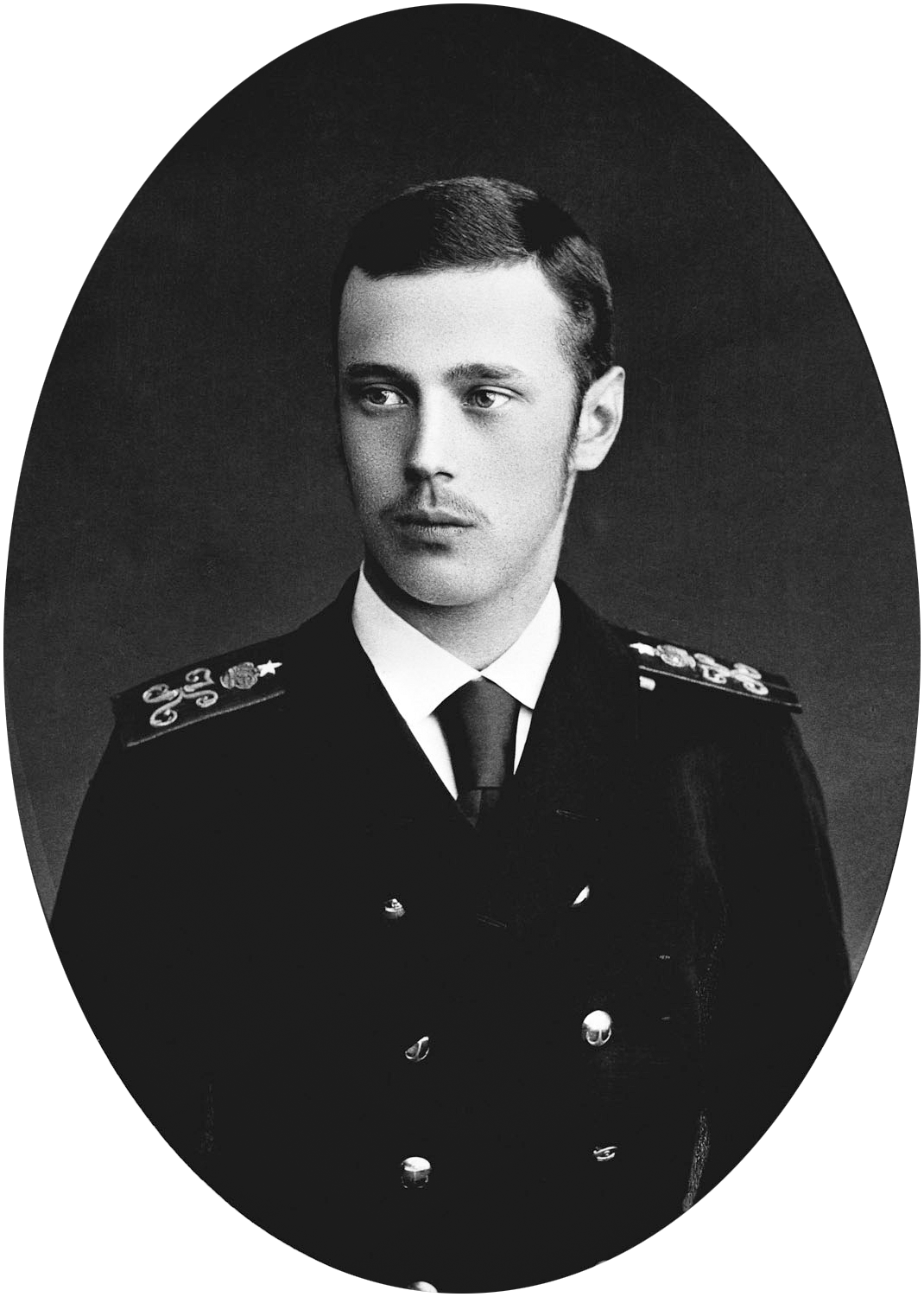 Photo of Tsesarevich George Alexandrovich